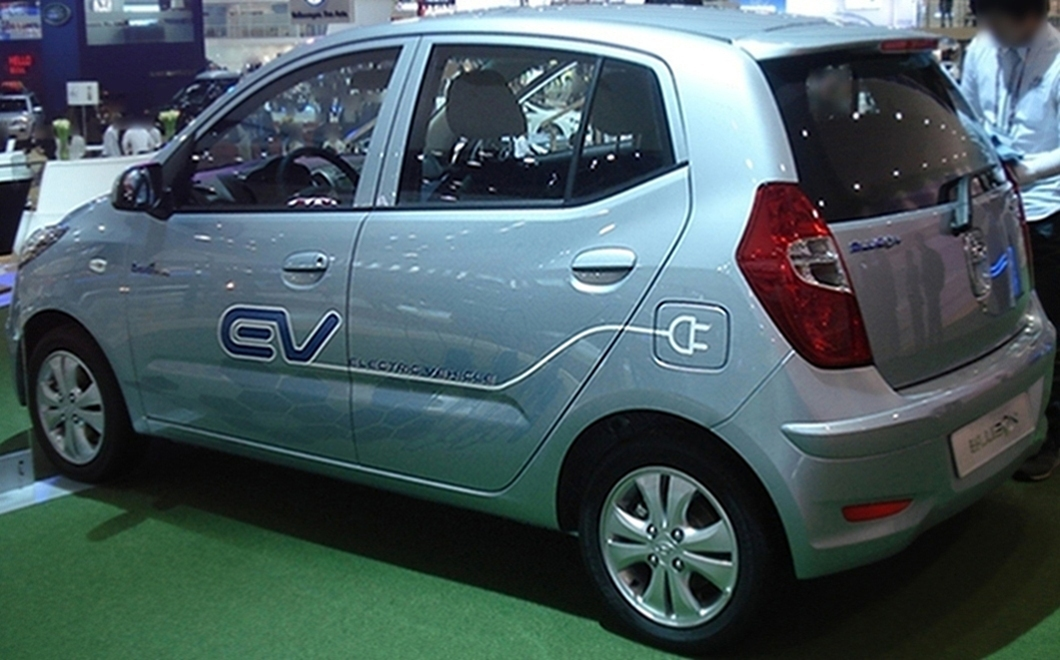 Hyundai BlueOn